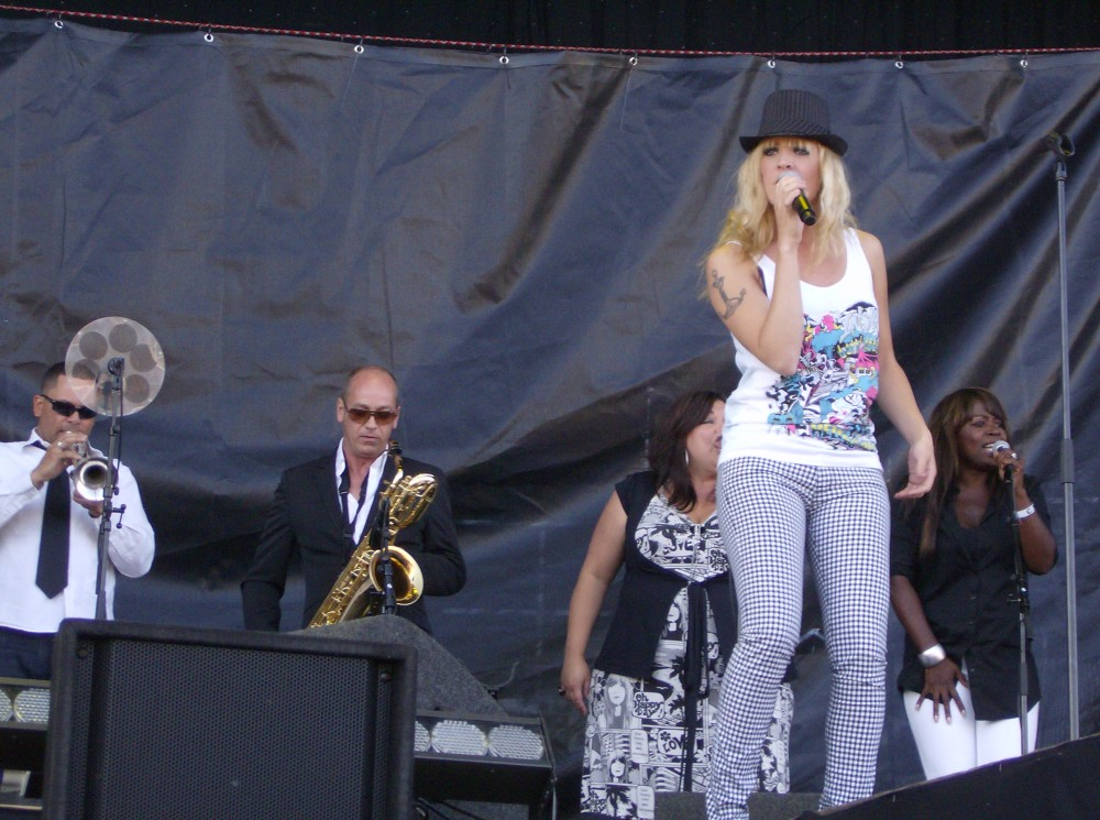 "Dennis", Dutch singer, with her band, July 7, 2008